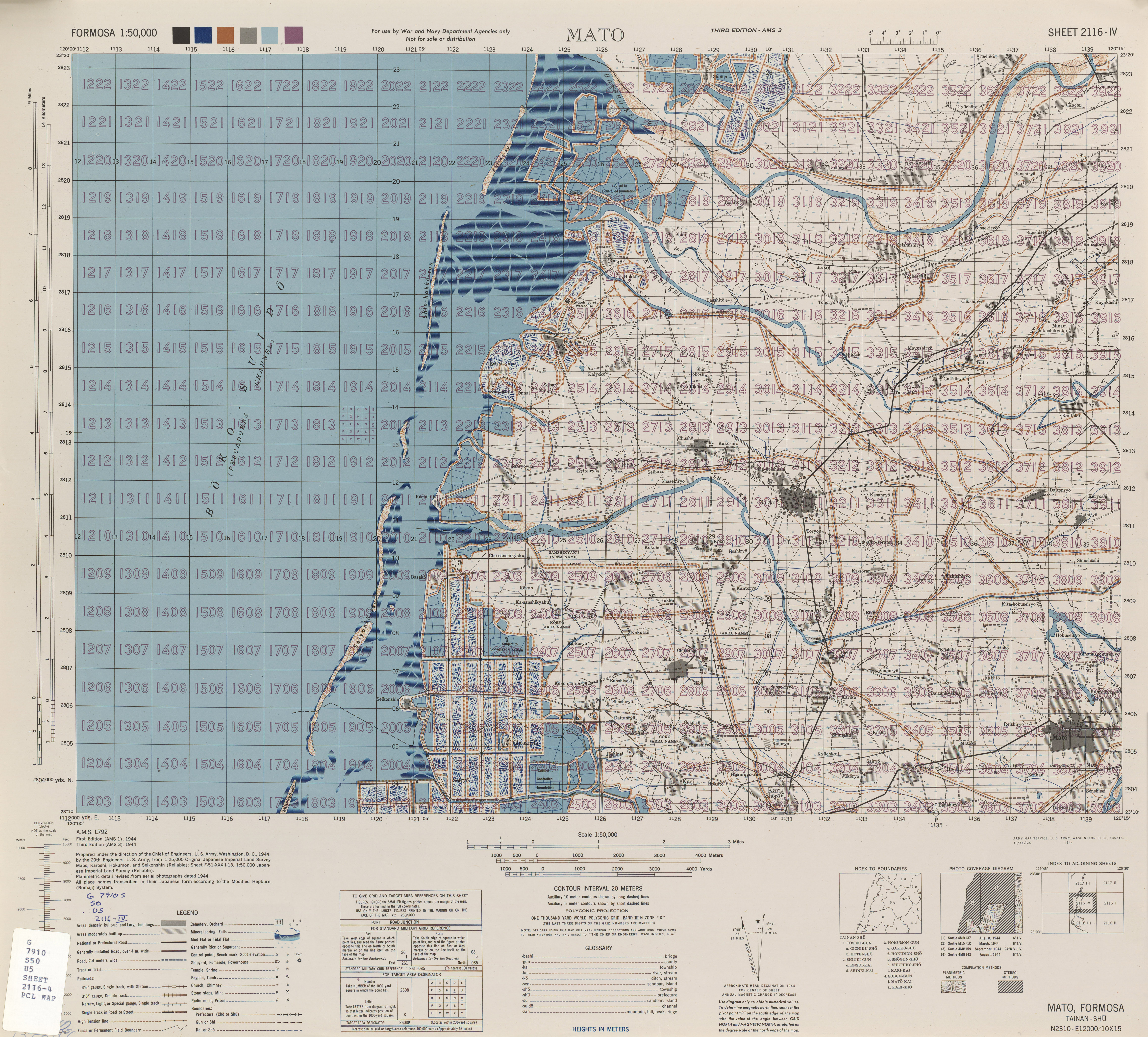 Map from Formosa (Taiwan) 1:50,000 AMS Series L792